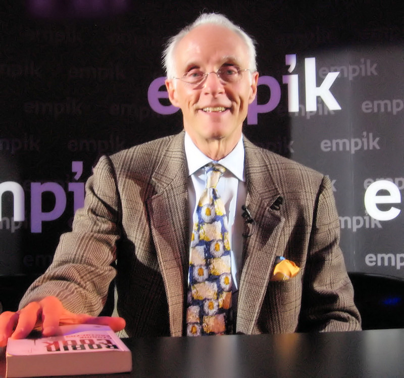 Robin Cook - an American doctor and novelist (during the meeting in Warsaw, Poland on 15th May 2008)